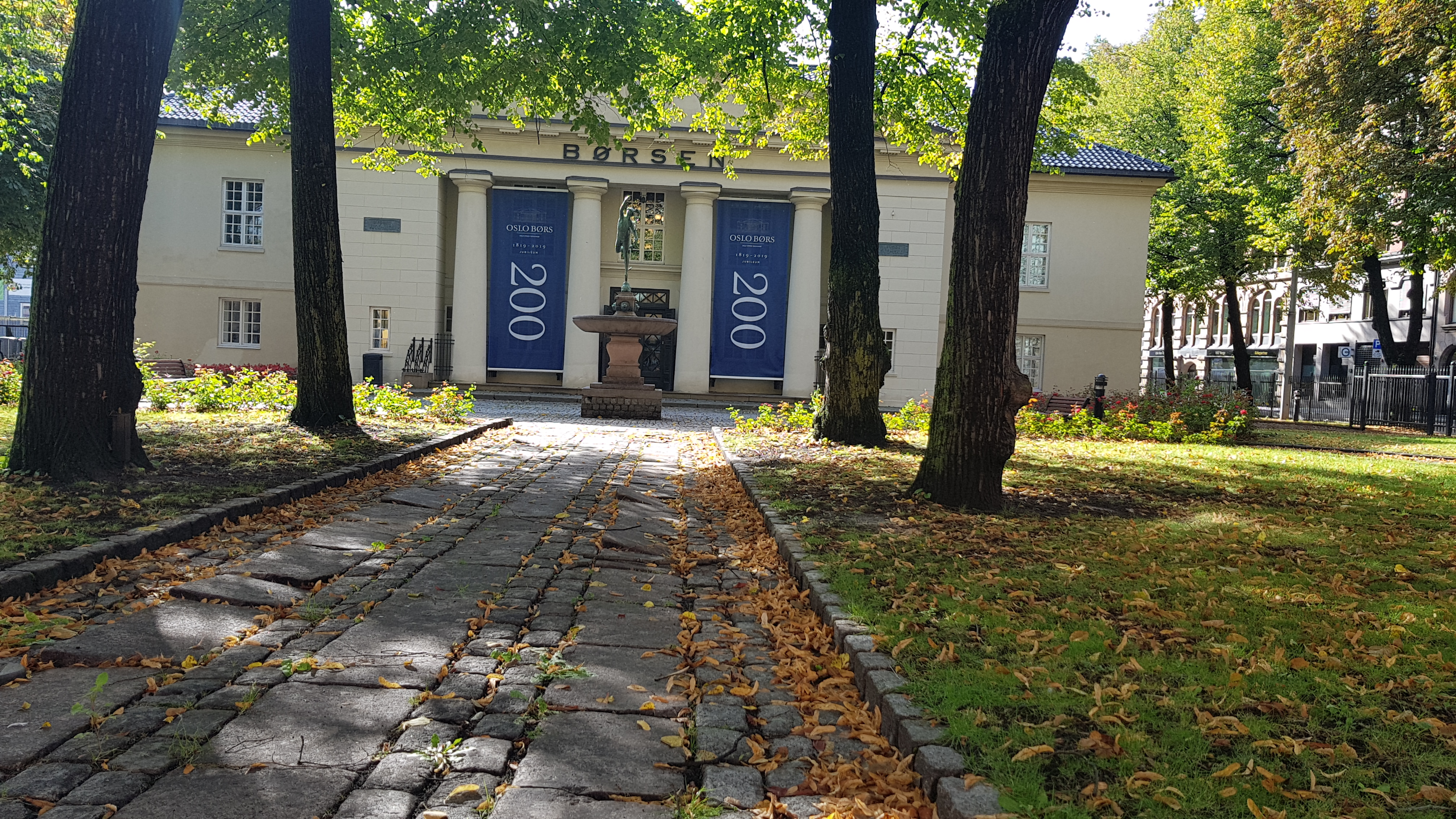 Image of Oslo Stock Exchange in September 2019. Oslo Børs is celebrating its 200th anniversary